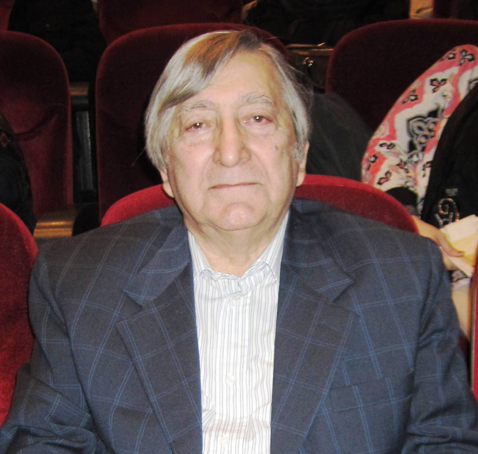 Alireza Mashayekhi at the 30th Fajr International Music Festival, 19 February 2015.